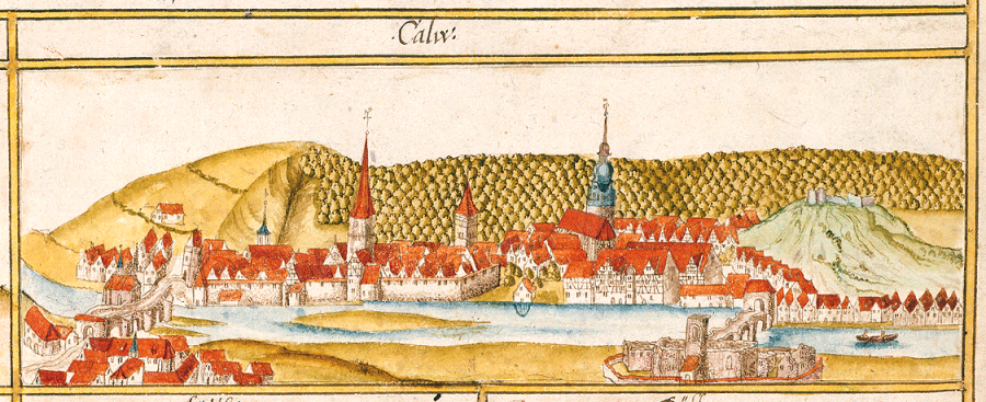 View of Calw from the forest register books created by Andreas Kieser